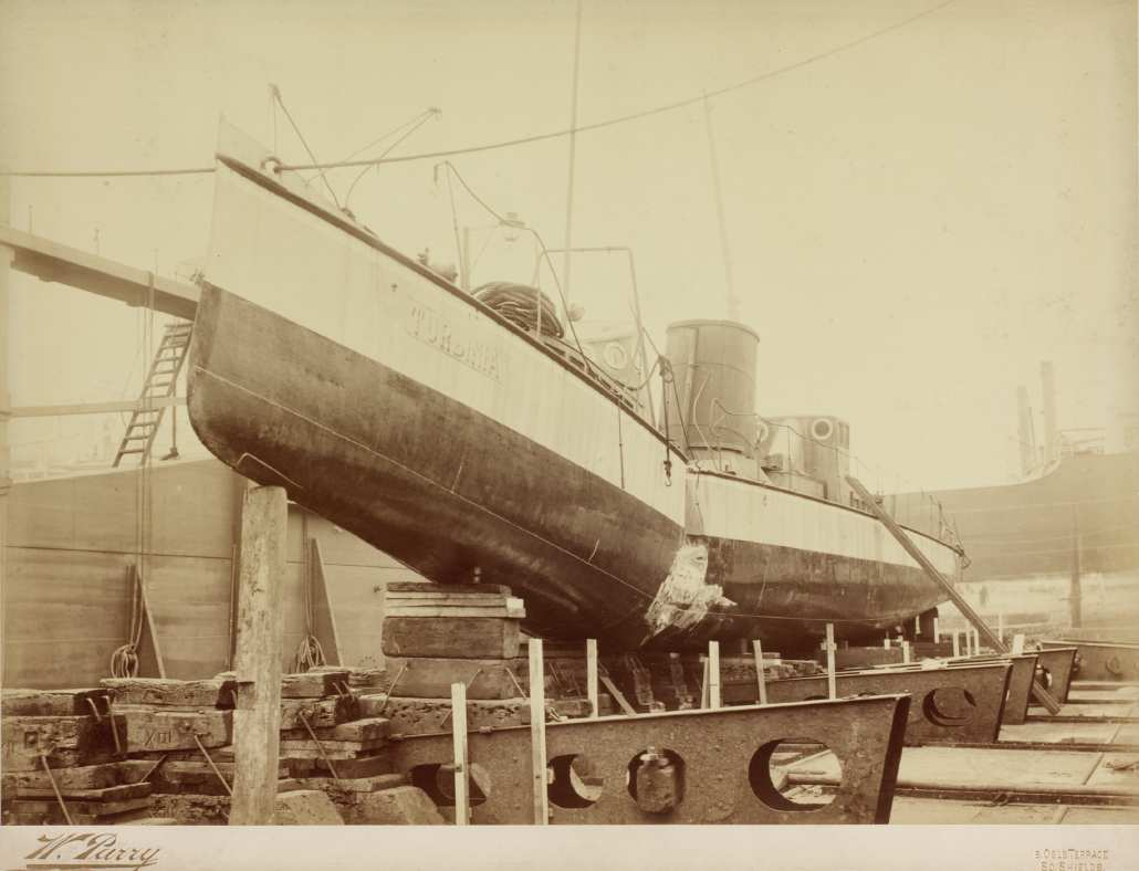 A photograph of the damaged Turbinia, taken by W. Parry in 1907. In January that year 'Turbinia' was moored at Wallsend when she was hit by the 'Crosby', a ship launched from Robert Stephenson's shipyard on the other side of the Tyne. The Crosby crashed into her with such momentum that 'Turbinia' was pushed on to the shore. However, the Marine Steam Turbine Company was able to repair her. Reference: TWCMS: 2003.434 (Copyright) We're happy for you to share this digital image within the spirit of The Commons. Please cite 'Tyne & Wear Archives & Museums' when reusing. Certain restrictions on high quality reproductions and commercial use of the original physical version apply though; if you're unsure - for image licensing enquiries please follow this link